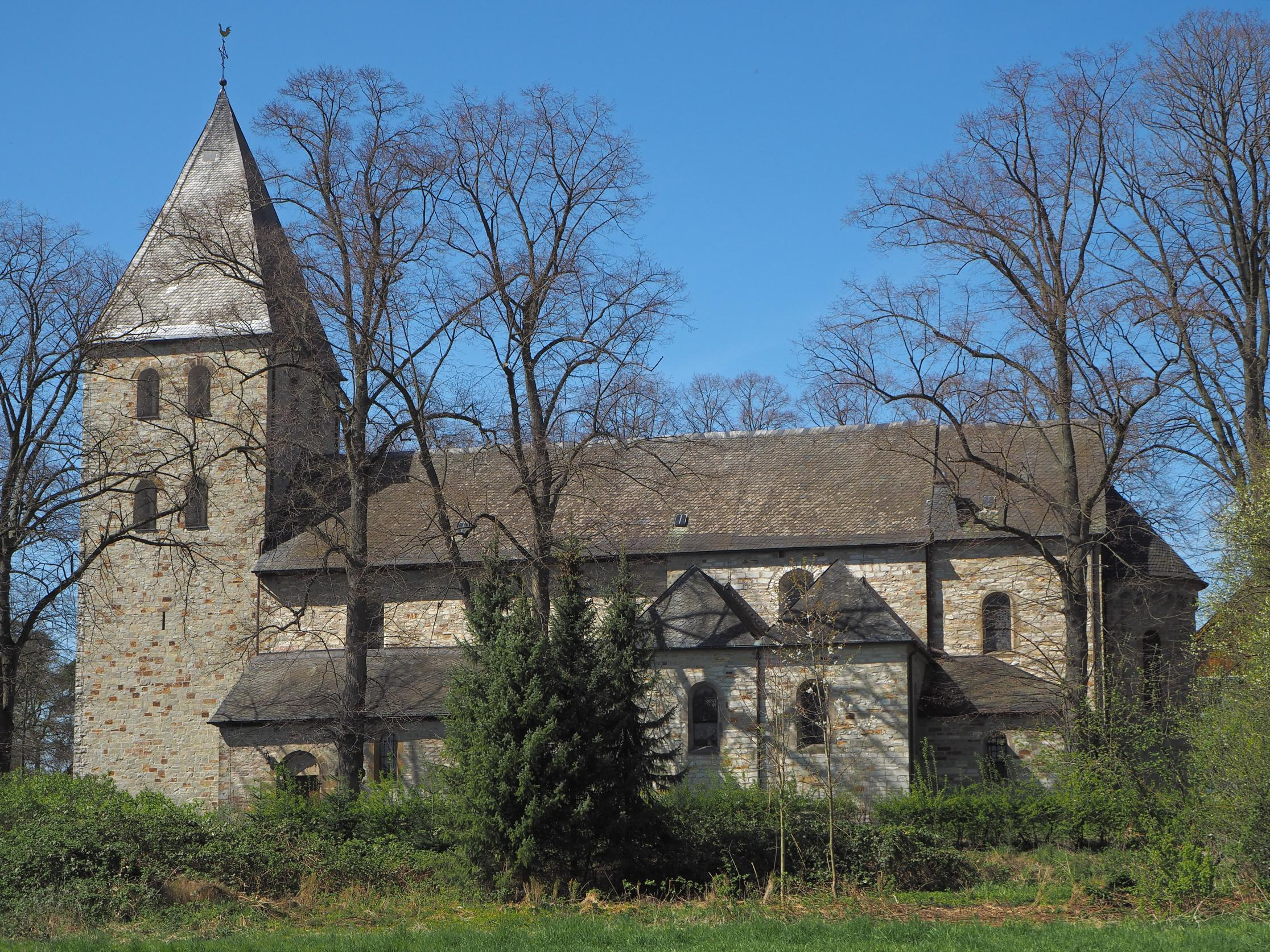 Church of the German village Boke (Northrhine-Westphalia).